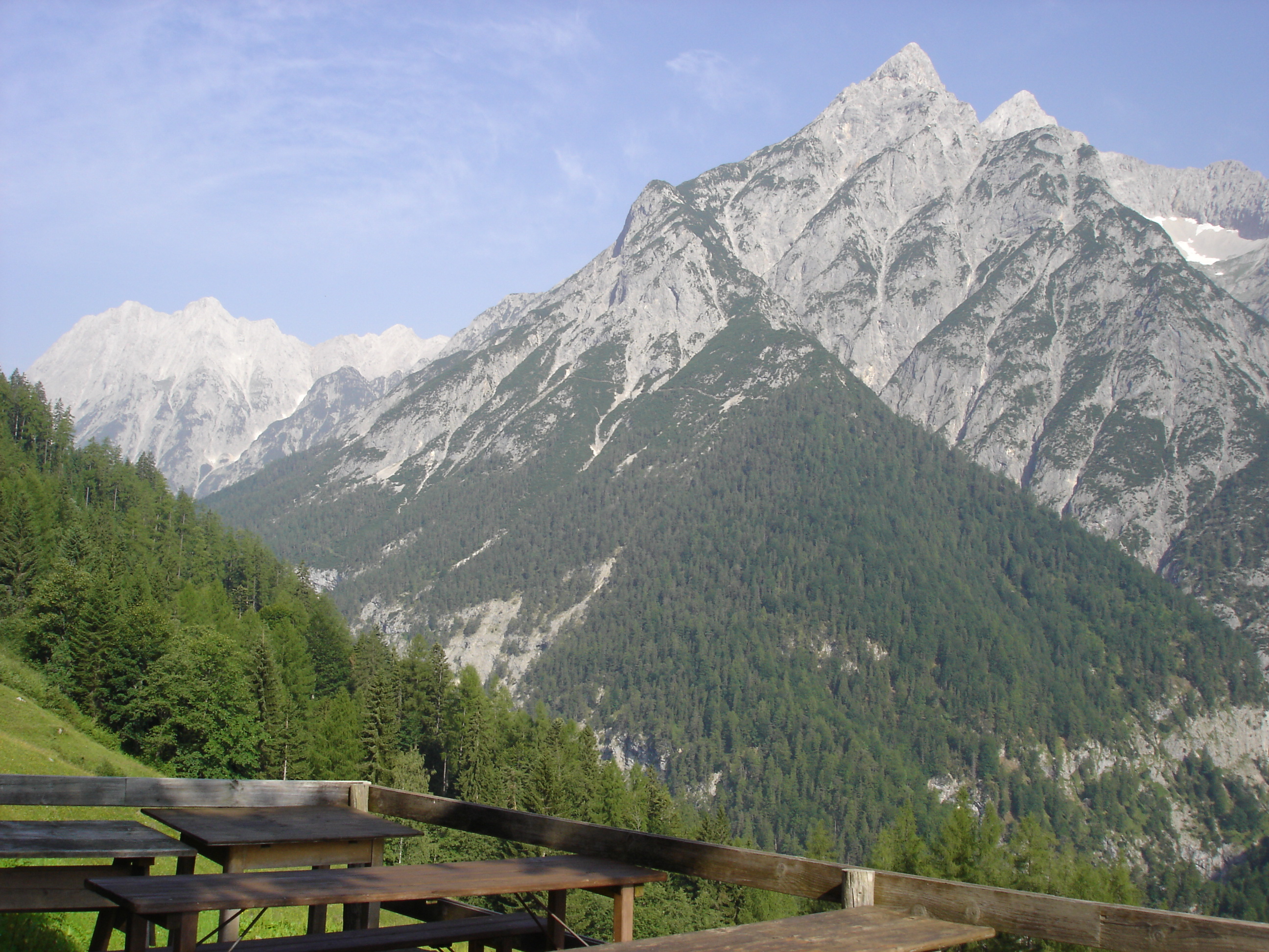 From Ganalm to the Vomper Loch, right Huderbankspitze and Kaiserkopf. Karwendel, Austria